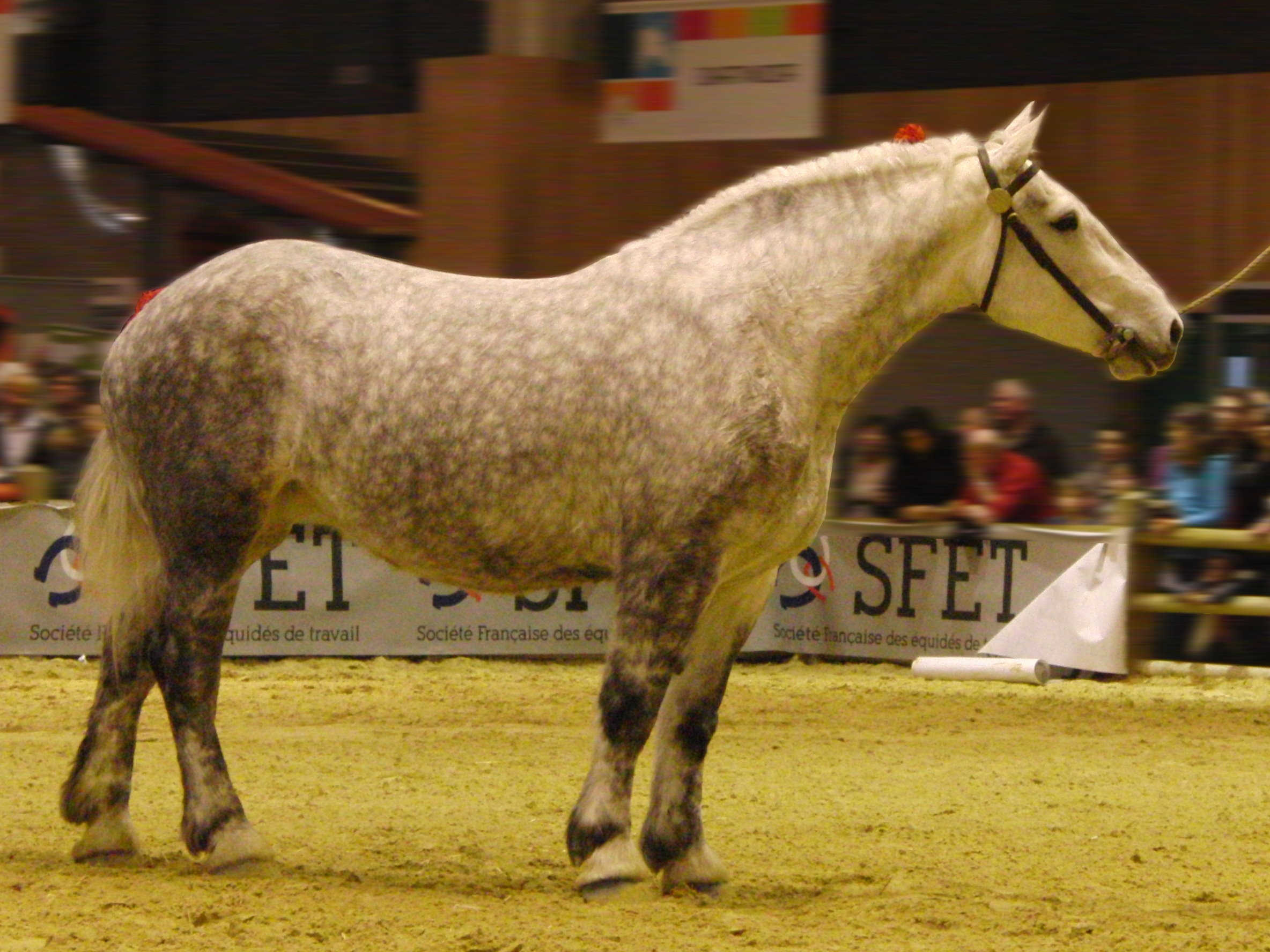 A grey Percheron horse at the 2014 International Agriculture Show in Paris, France